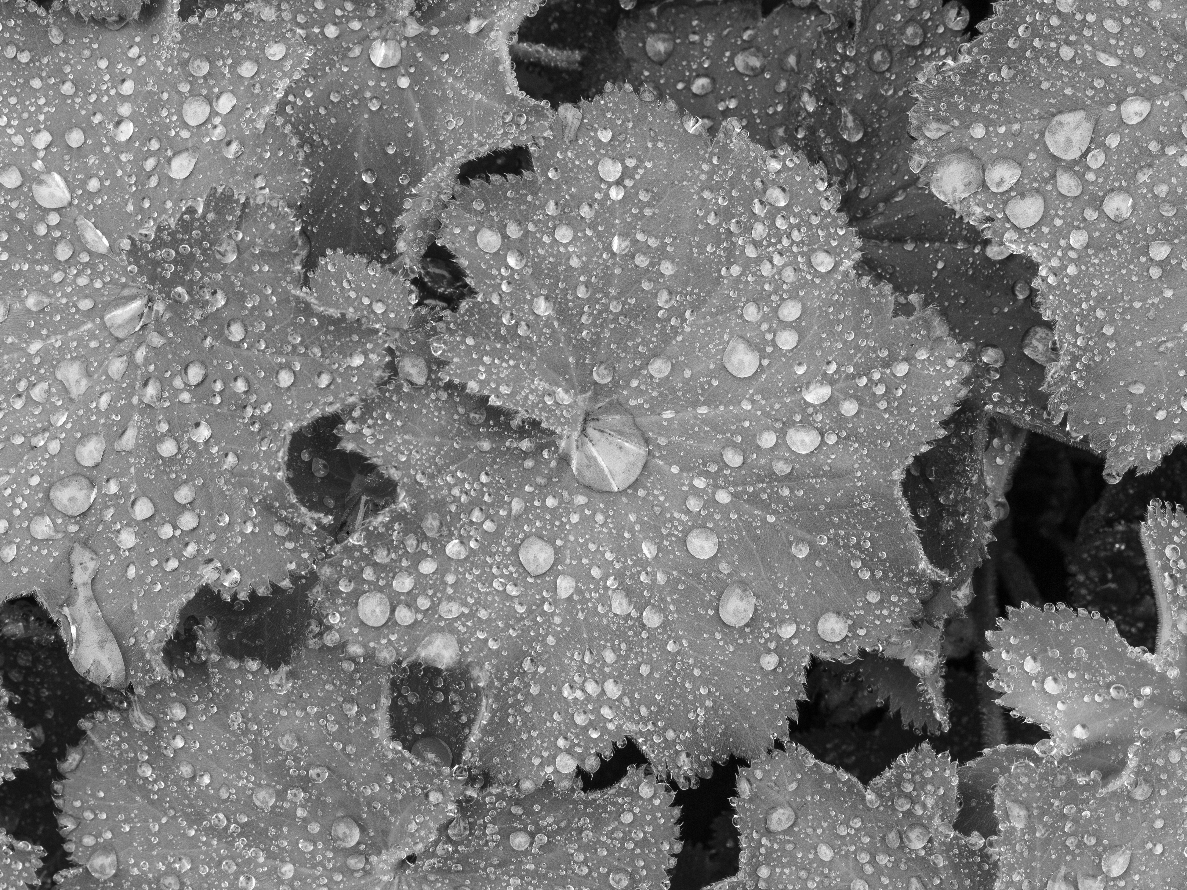 Alchemilla mollis. Alchemilla mollis covered with raindrops.